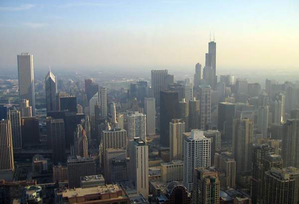 This photograph was taken from the 4th tallest building in Chicago. The John Hancock Center looking SouthWest.